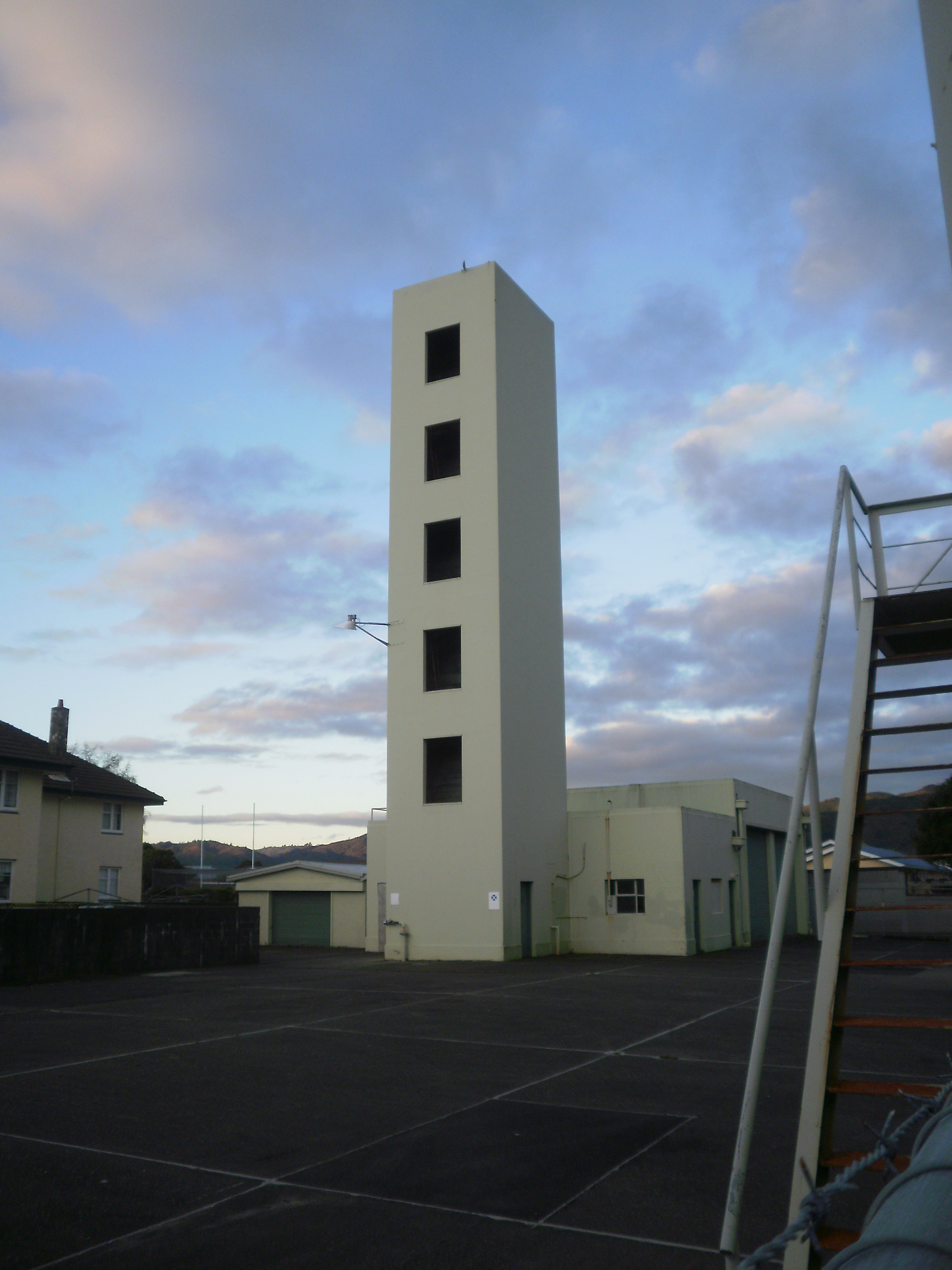 Lower Hutt Central Fire Station (former), in Waterloo Rd, Lower, New Zealand. Built in 1955.